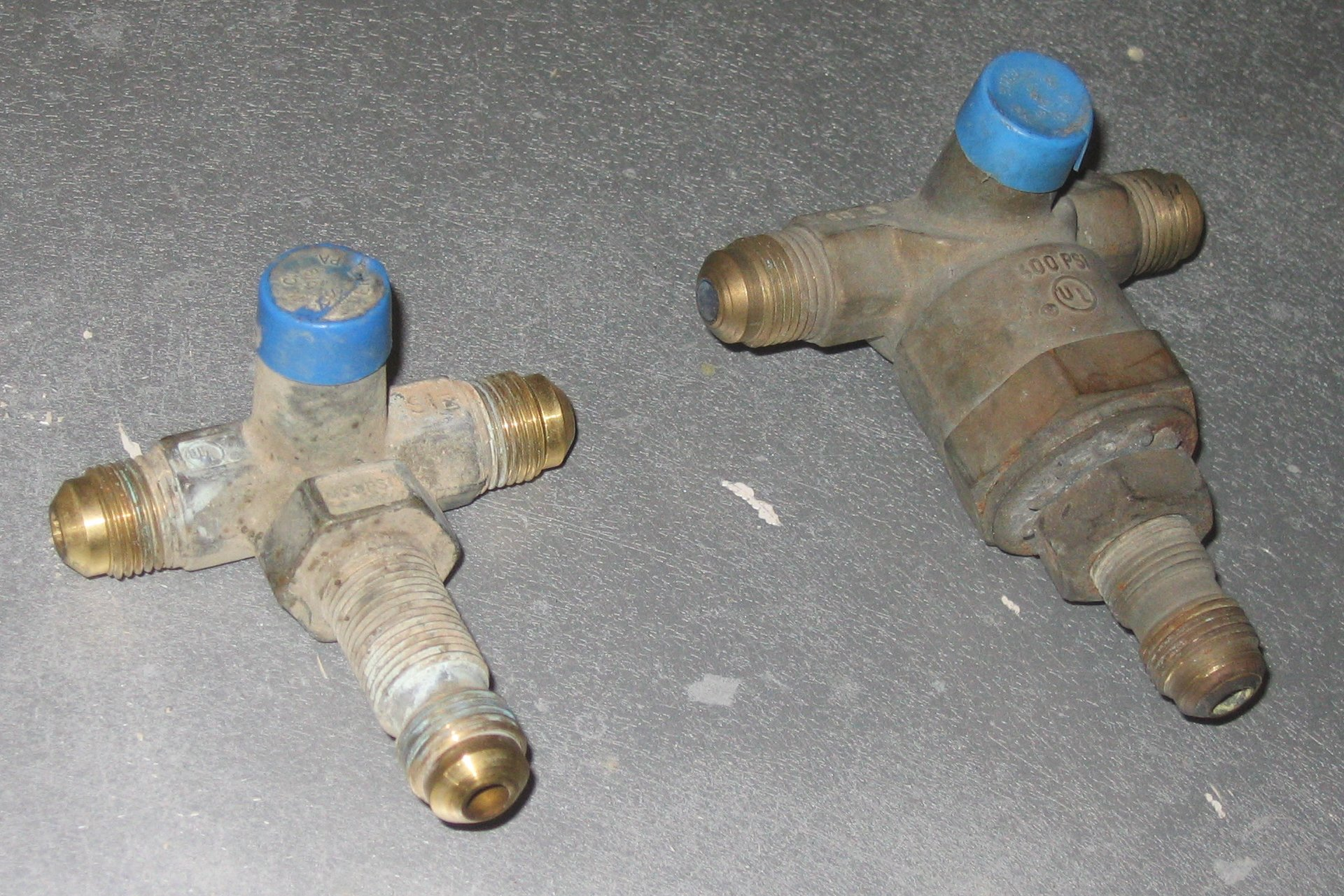 Autogas (Sherwood brand) twin-check and hydrostatic relief valve assemblies, 1995 on left, 1989 on right